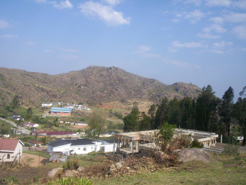 View of Mbabane, Swaziland